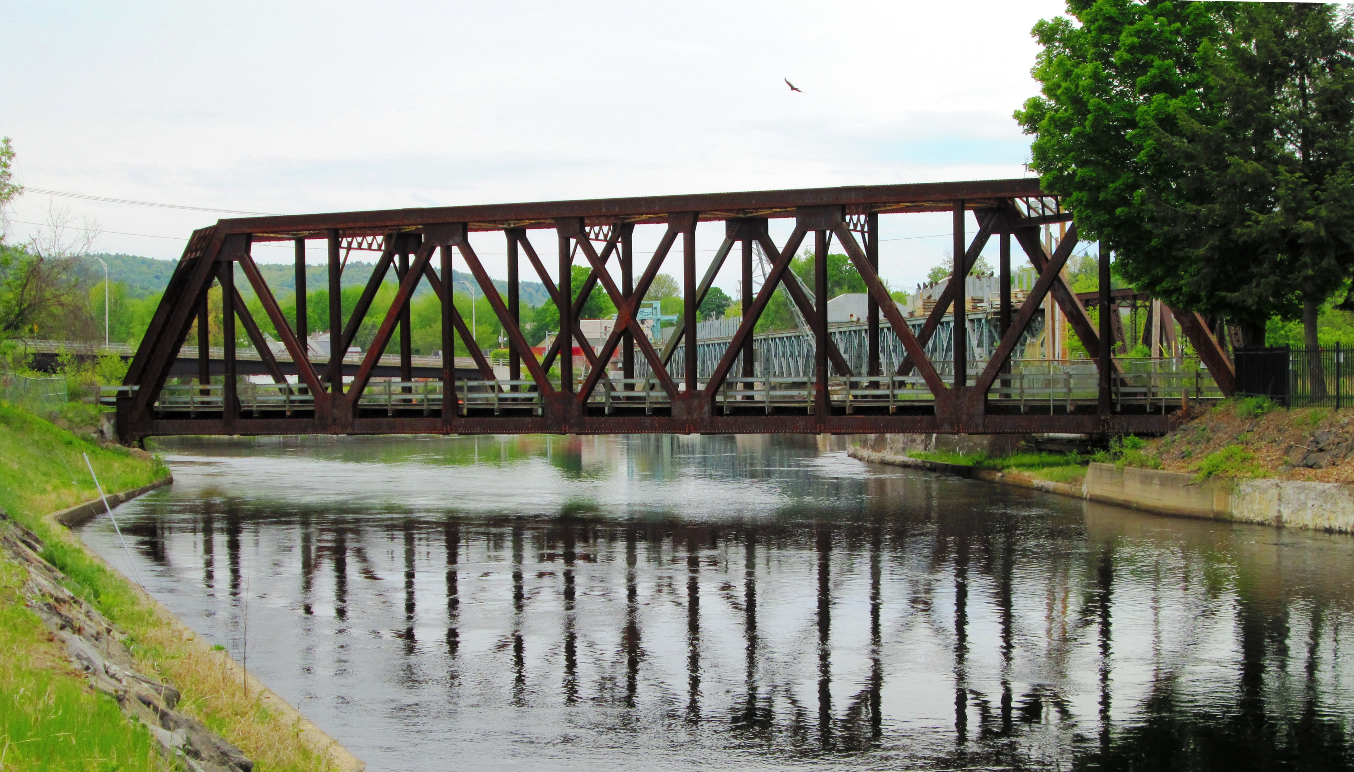 A railroad truss bridge spans the Bellows Falls Canal. Behind it can be seen the dam which creates the water-storing Connecticur River Reservoir in North Walpole, New Hampshire.